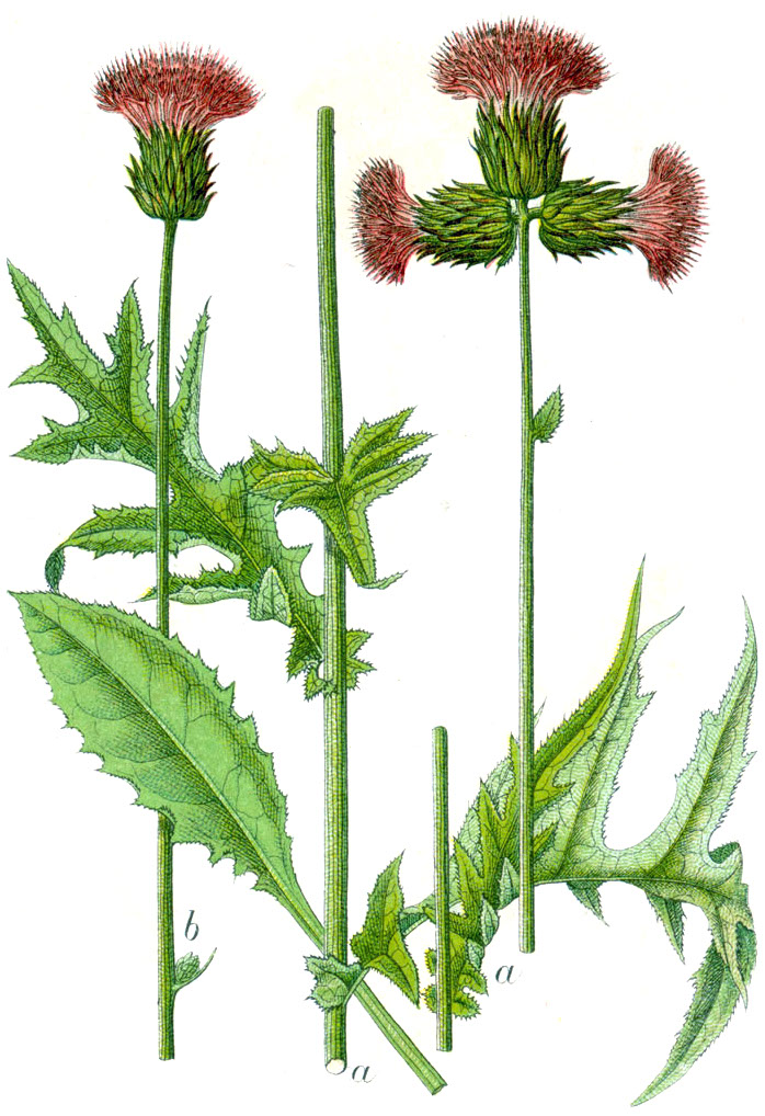 Cirsium rivulare (Jacq.) All., syn. Carduus rivularis Jacq. Original Caption Dreiblumige Distel, Carduus rivularis